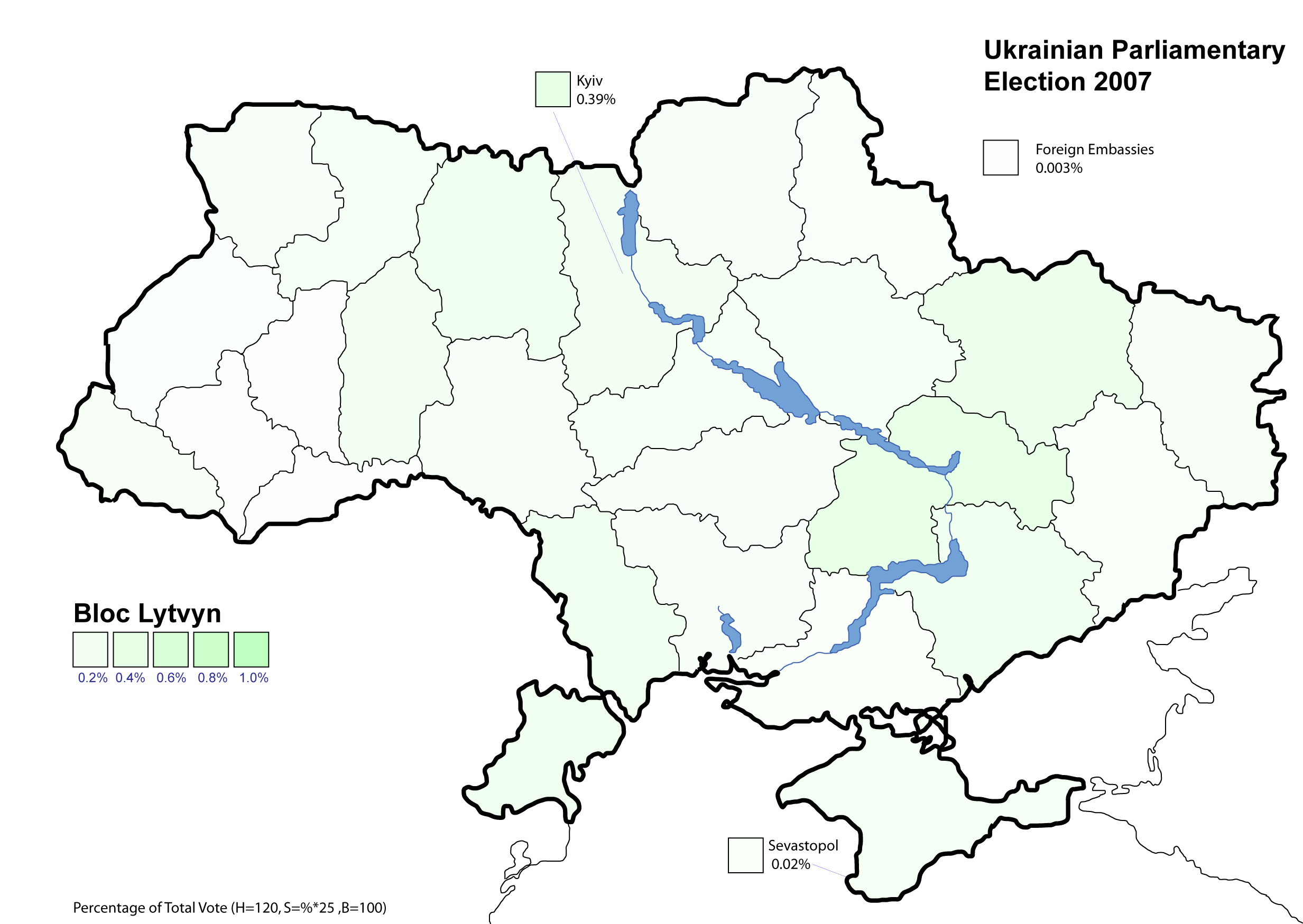 Ukrainian Parliamentary Election 2007 (BL) Percentage of total national vote (minimal text)